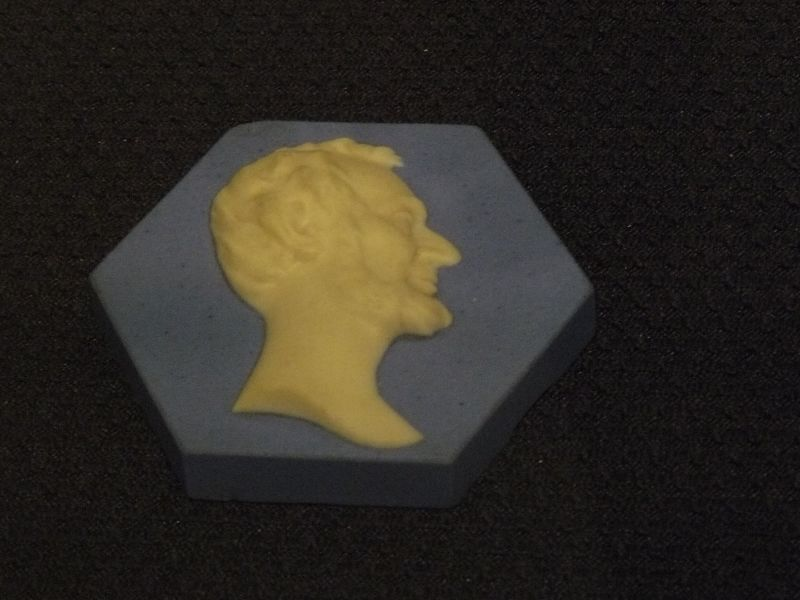 Mosaic Tile Company. Paperweight Tile, early 20th century. Glazed stoneware. Brooklyn Museum, The Arthur W. Clement Collection, 41.133.